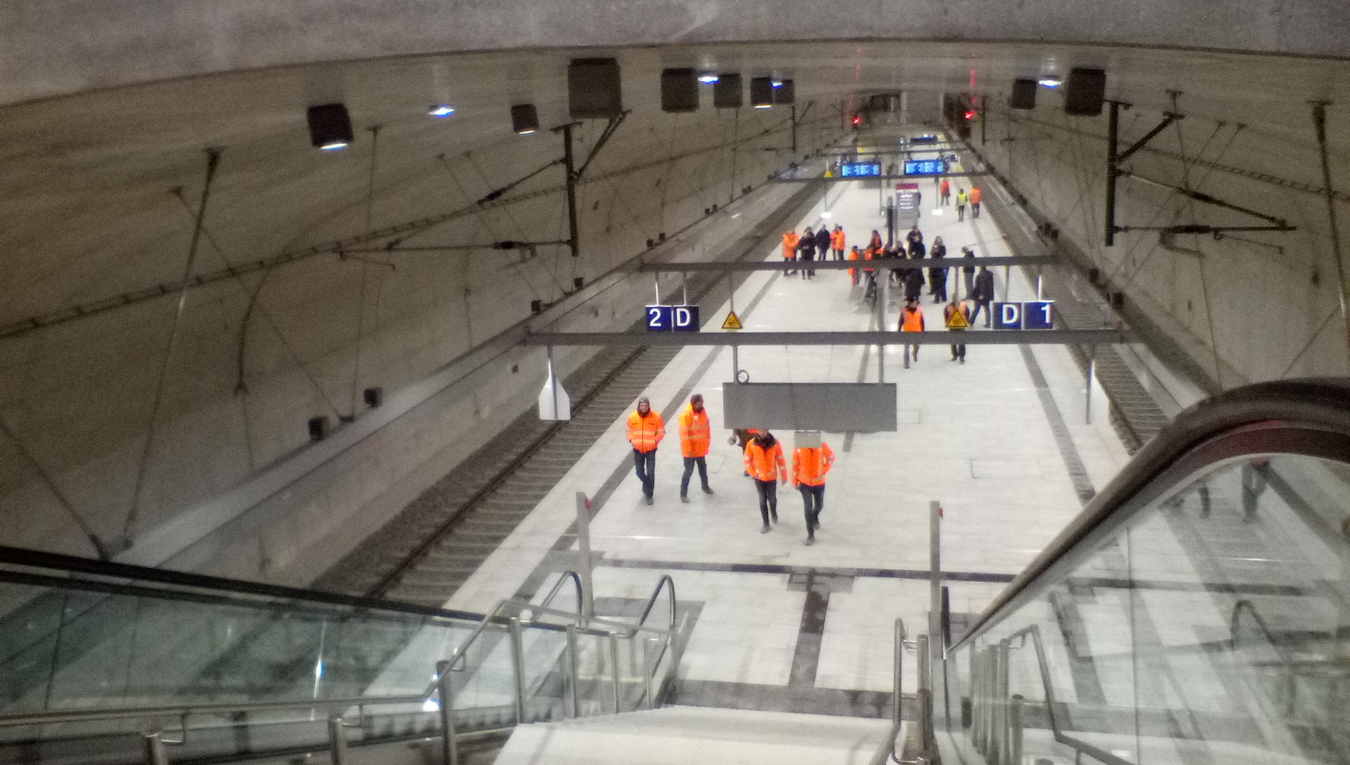 Frankfurt Gateway Gardens station just after the first two trains had departed, with construction workers visible, who had been waving and celebrating the arrival of the trains.